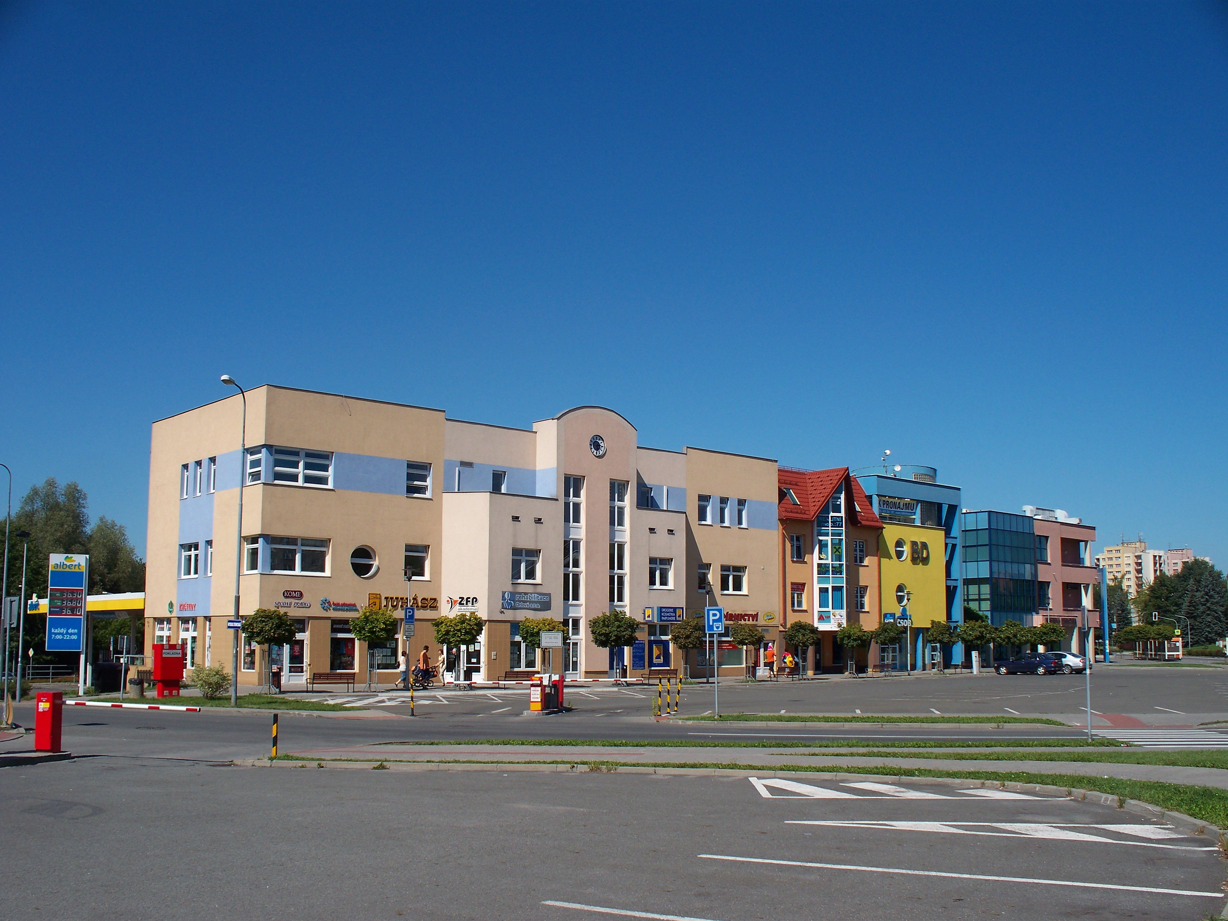 The downtown Orlová-Lutyně, Czech Republic.